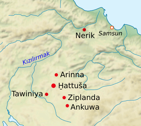 Blank physical map of the Near East